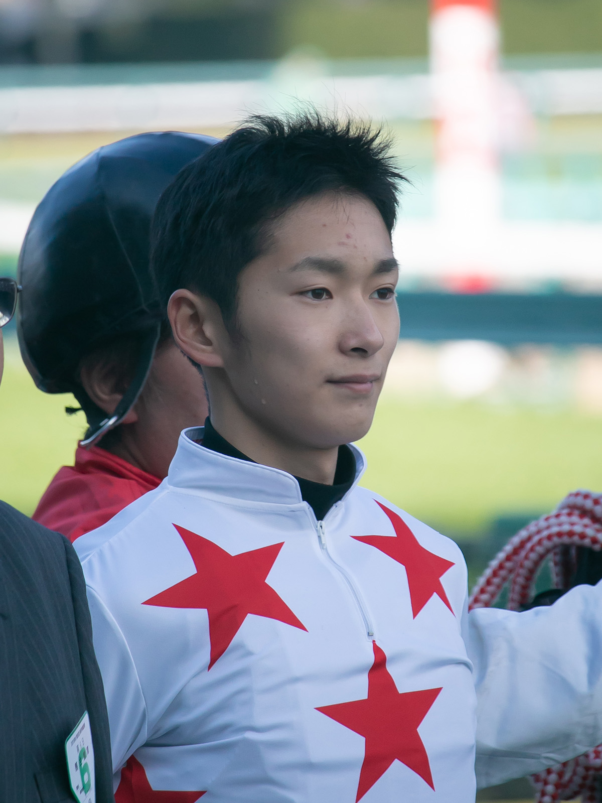 Ryusei Sakai, Jockey of JRA.